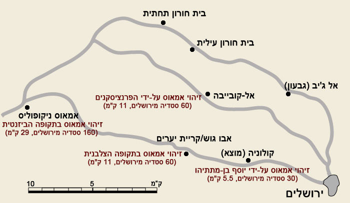 EmmausRoad Based on:[1]